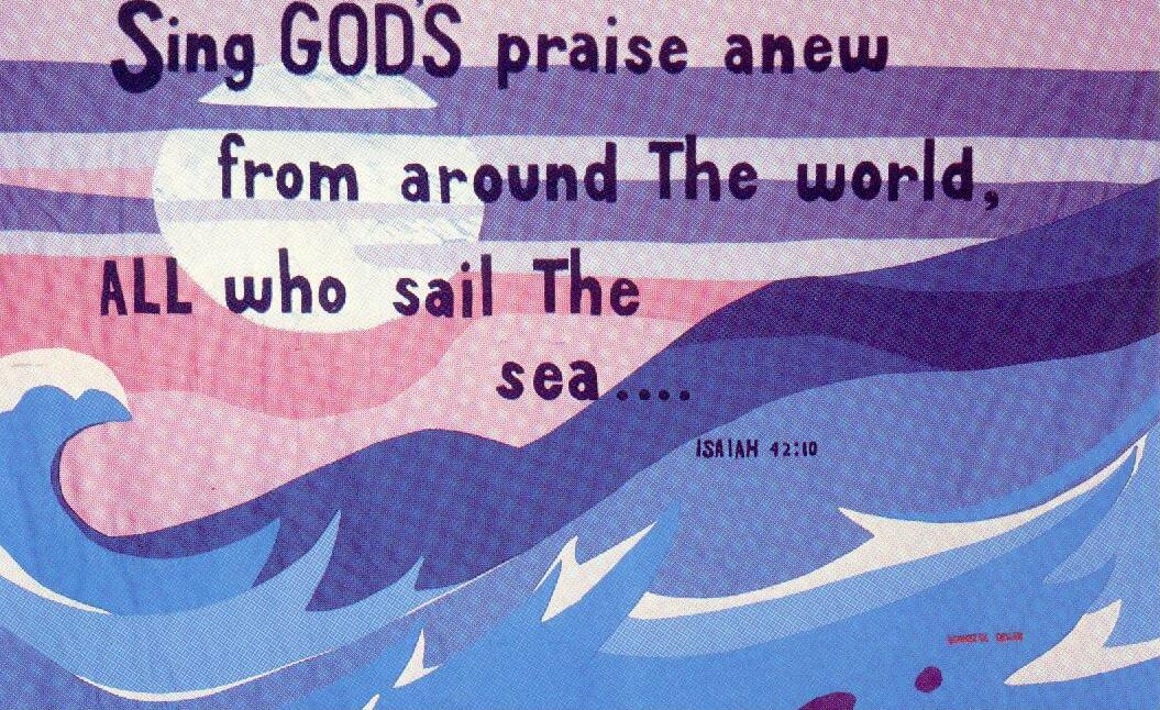 This is an official U.S. Navy image, taken by a U.S. Navy photographer's mate for use on official Chaplain Dept documents (including postcards) as part of a joint Chaplain/Public Affairs outreach initiative. It shows an 11 foot x 7 foot wall hanging on the interior wall of the Commodore Levy Chapel, Naval Station Norfolk, the Navy's oldest Jewish chapel. The idea for the creation of the wall-hanging was that of Jewish Chaplain (Rabbi) Arnold E. Resnicoff, who had the design created and donated by a local Norfolk artist Leonette Adler, who also supervised the creation of the actual wall-hanging, with Naval personnel and families cutting and stitching together the cloth-on-cloth wall hanging. The wall-hanging includes the biblical verse from Isaiah, "Sing God's praise anew from around the world, all who sail the sea," because of its special meaning for Navy personnel. The wall-hanging was dedicated to the memory of Jack Irwin Resnicoff, Rabbi Resnicoff's father, at a special community wide celebration -- "Jewish pride in the Navy day" -- September 12, 1982, sponsored by The Commodore Levy Chapel, that attracted men and women from around the Tidewater Virginia area. Jack Resnicoff passed away during the time the congregation was sewing together the wall-hanging.